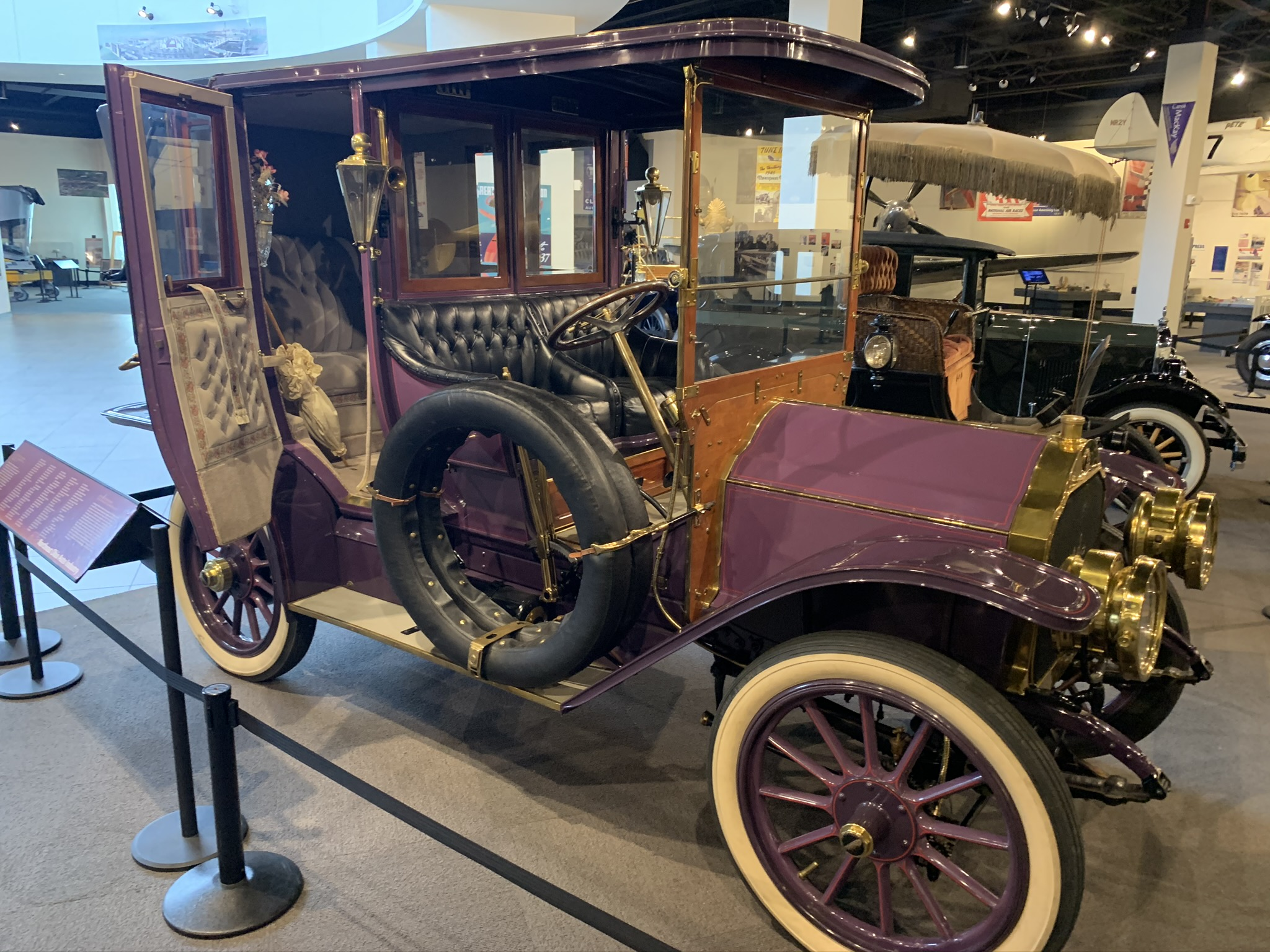 1907 Studebaker-Garford at Crawford Auto-Aviation Museum